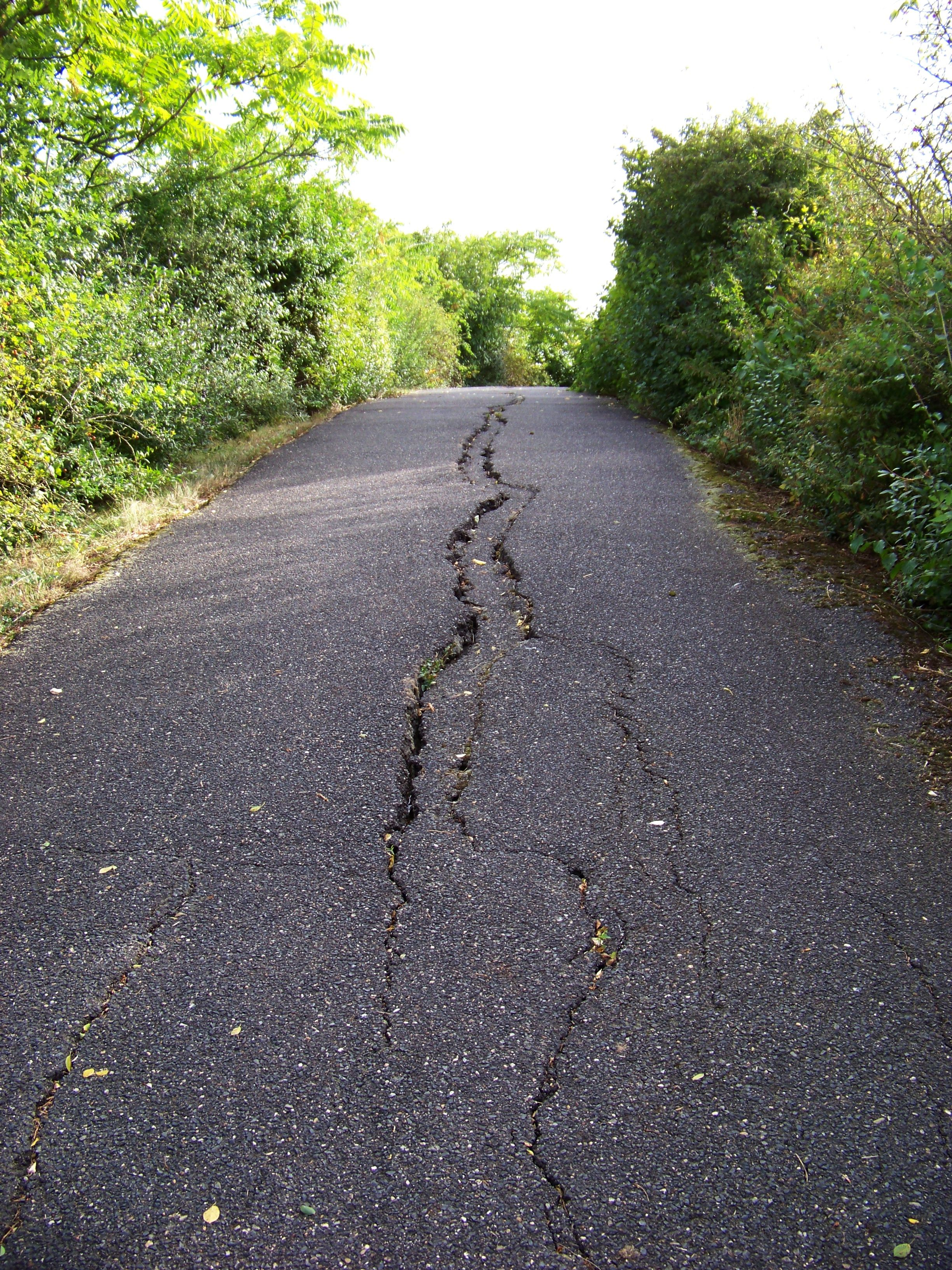 Prague-Chodov, the Czech Republic. Roztyly, a crack on the path to the anti-noise berm. - Google Maps - Google Earth